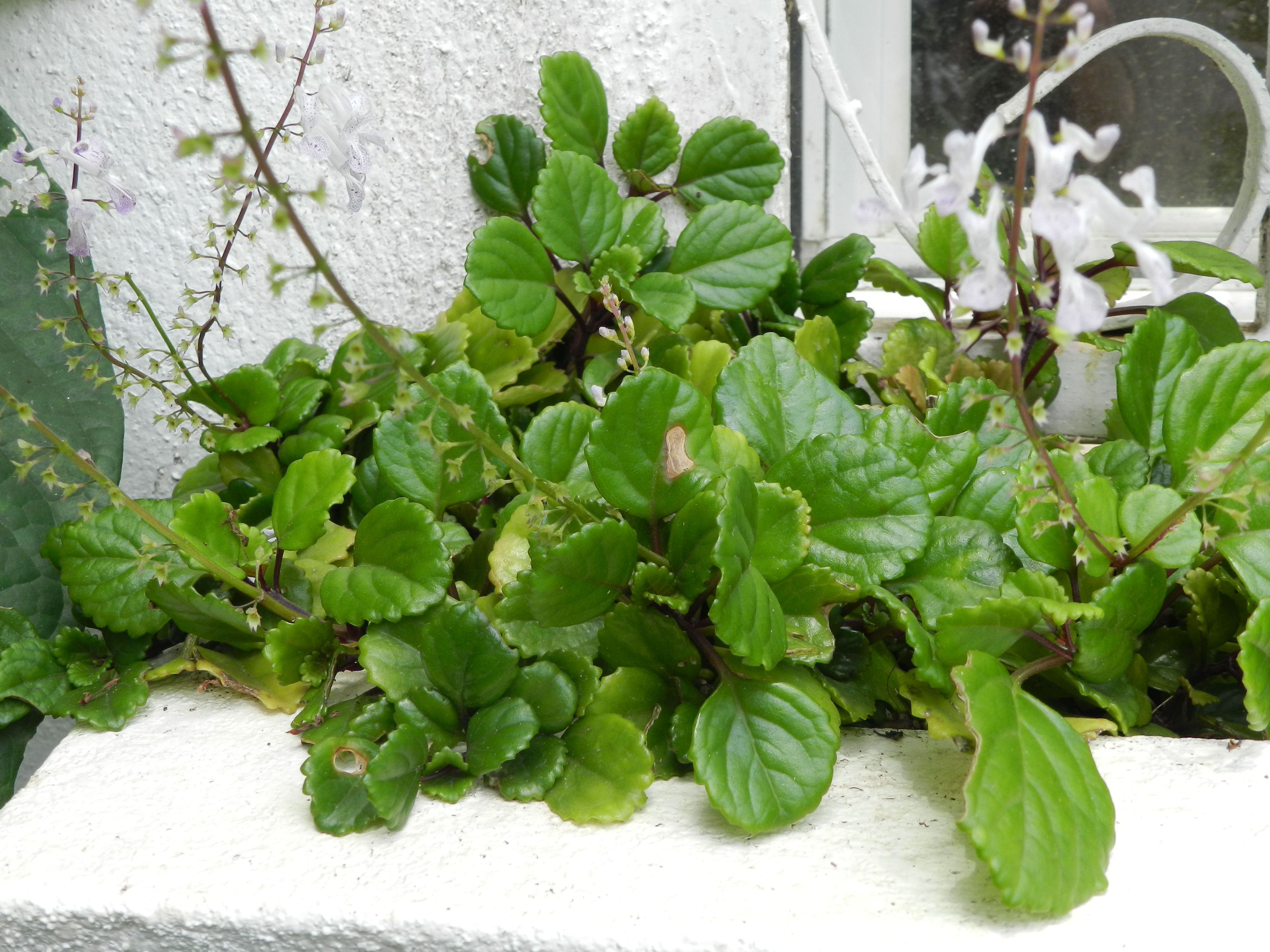 Leaves of Plectranthus verticillatus in El crucero, Managua, Nicaragua.